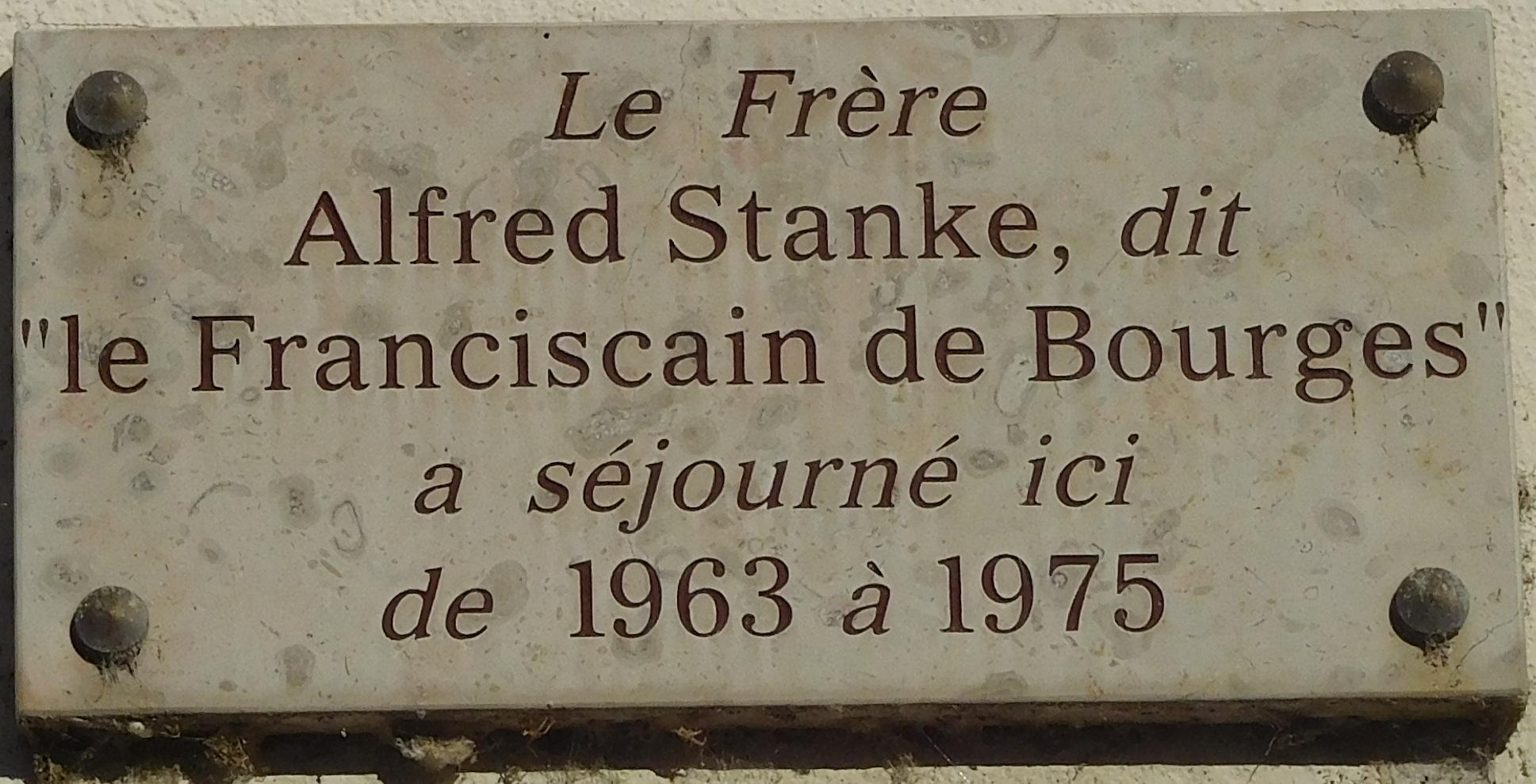 Plaque commemorating Alfred Stanke (Aloïs Stanke), known as "the Franciscan of Bourges", in Cosne-Cours-sur-Loire, France.